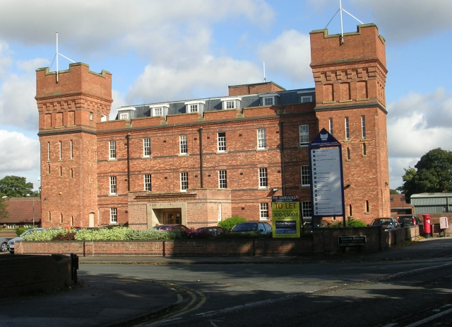 Barracks Business Centre - Wakefield Road Former Army Barracks.